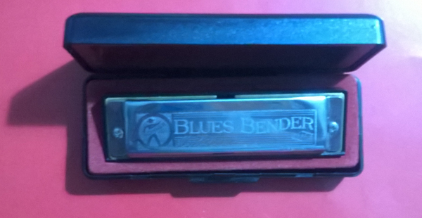 A picture of a Hohner Blues Bender harmonica in the key of D.